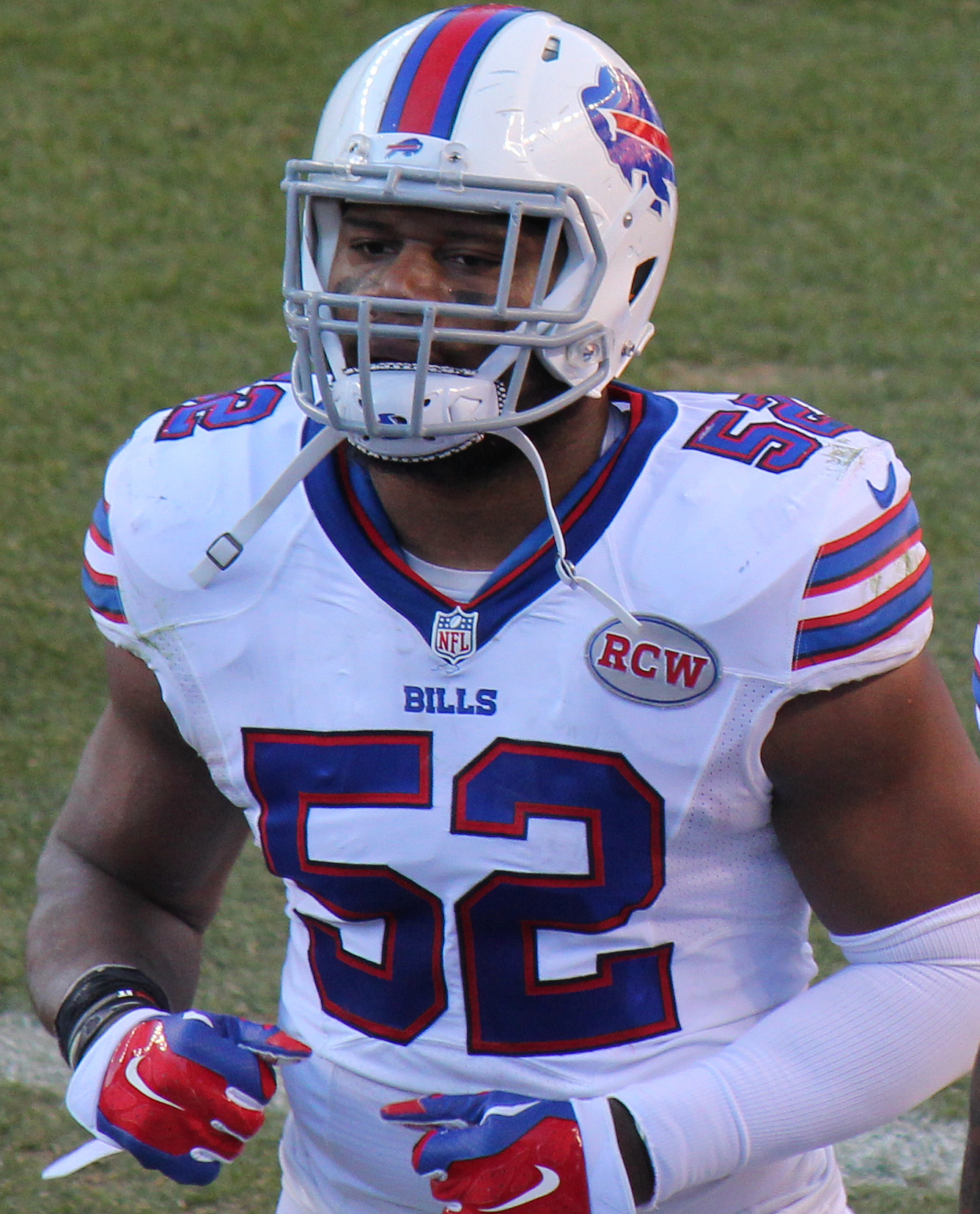 Preston Brown, a player on the National Football League.